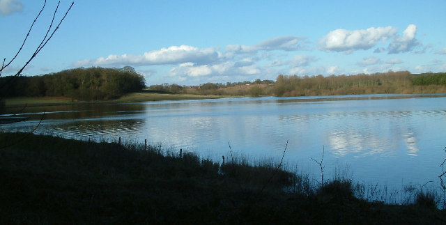 Blithfield Reservoir. Northeast corner, taken from near the Staffordshire Education Centre.